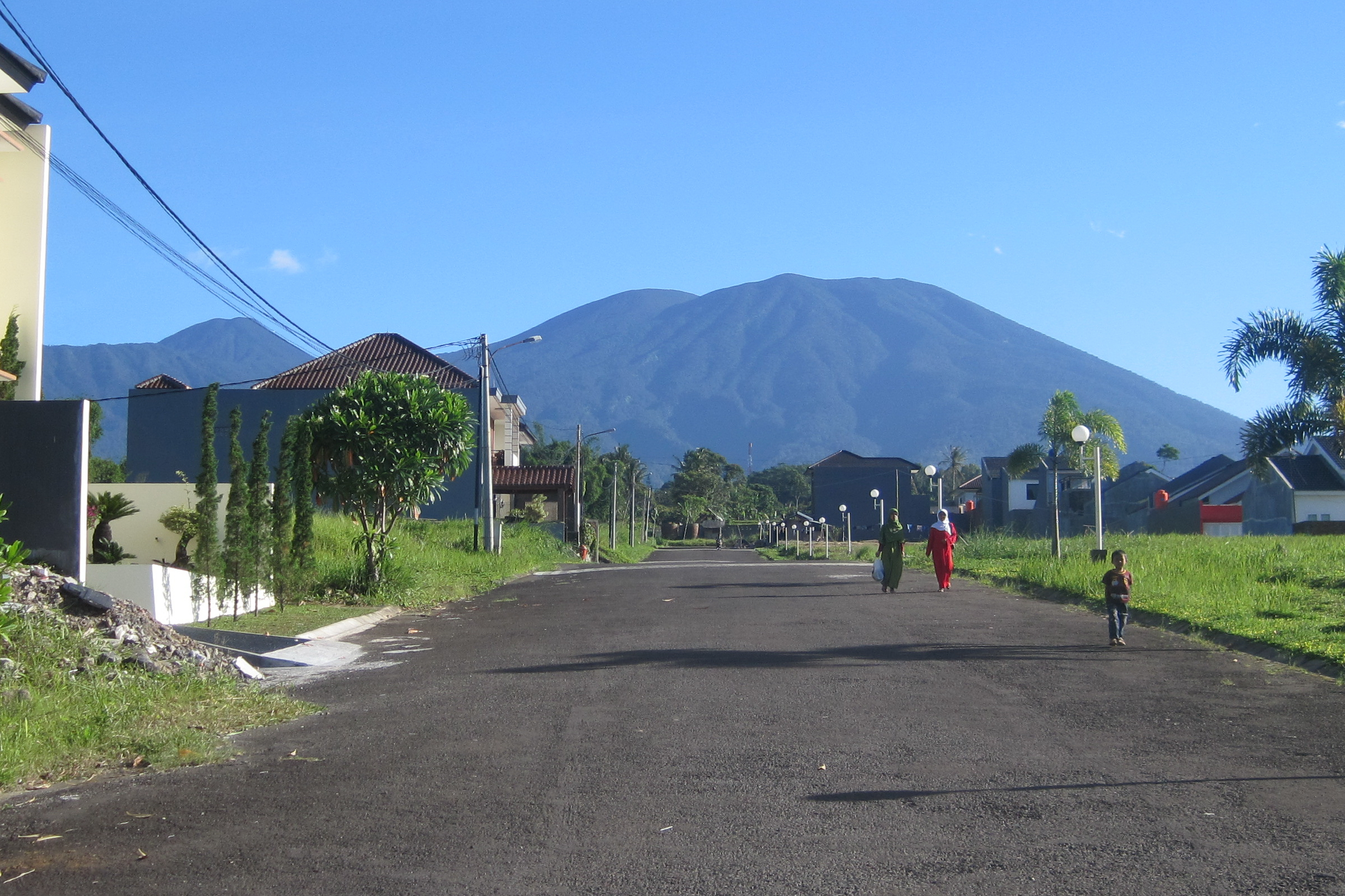 Mount Gede in West Java, Indonesia seen from Sukabumi Regency. The smaller peak on the left is Mount PangrangoBahasa Indonesia: Gunung Gede di Jawa Barat, Indonesia dilihat dari Kabupaten Sukabumi. Puncak kecil di sebelah kiri adalah Gunung Pangrango